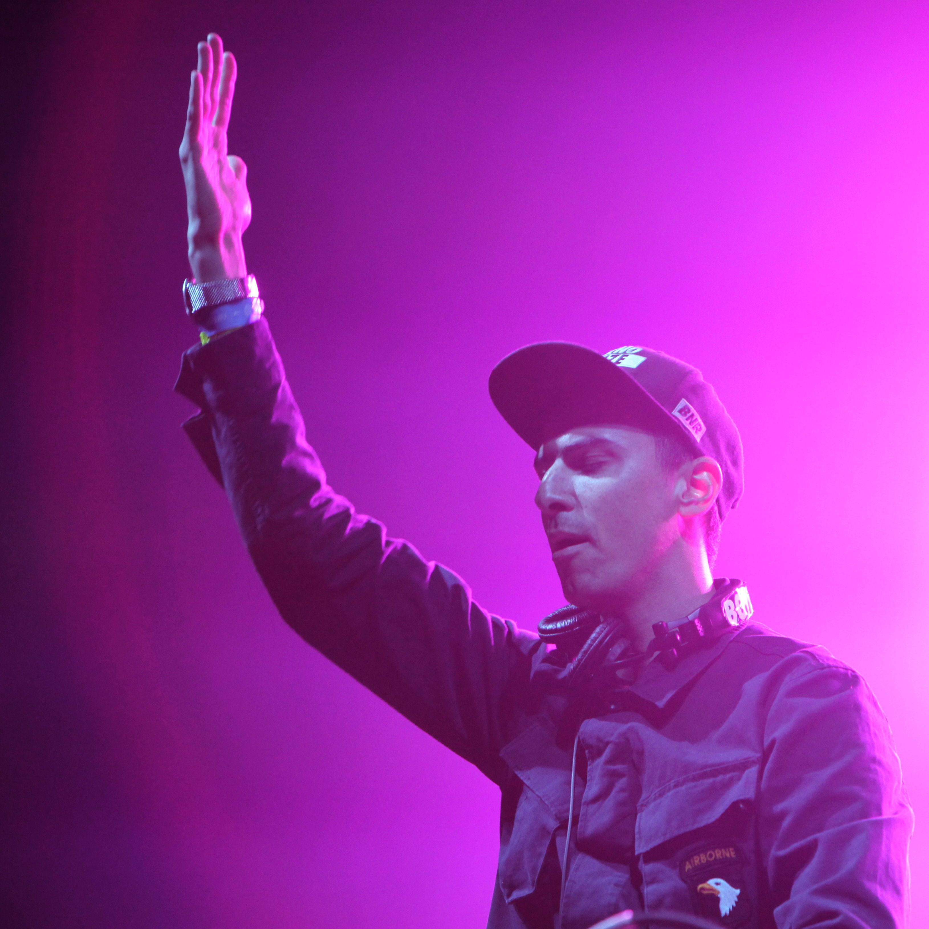 Boys Noize at the Eurockéennes de Belfort 2011 The making of this document was supported by Wikimedia CH. (Submit your project!) For all the files concerned, please see the category Supported by Wikimedia CH.